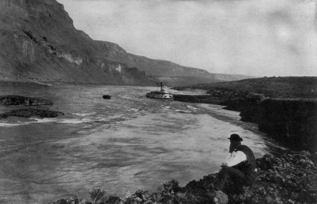 Steamer John Gates working through Priest Rapids on the Columbia River, under captain James W. Troup, in 1884. This steamboat was built 1878 and dismantled 1894. For dates, see Affleck, Edward L., A Century of Paddlewheelers in the Pacific Northwest, the Yukon, and Alaska, Alexander Nicolls Press, Vancouver BC 2000 ISBN 0-920034-08-X